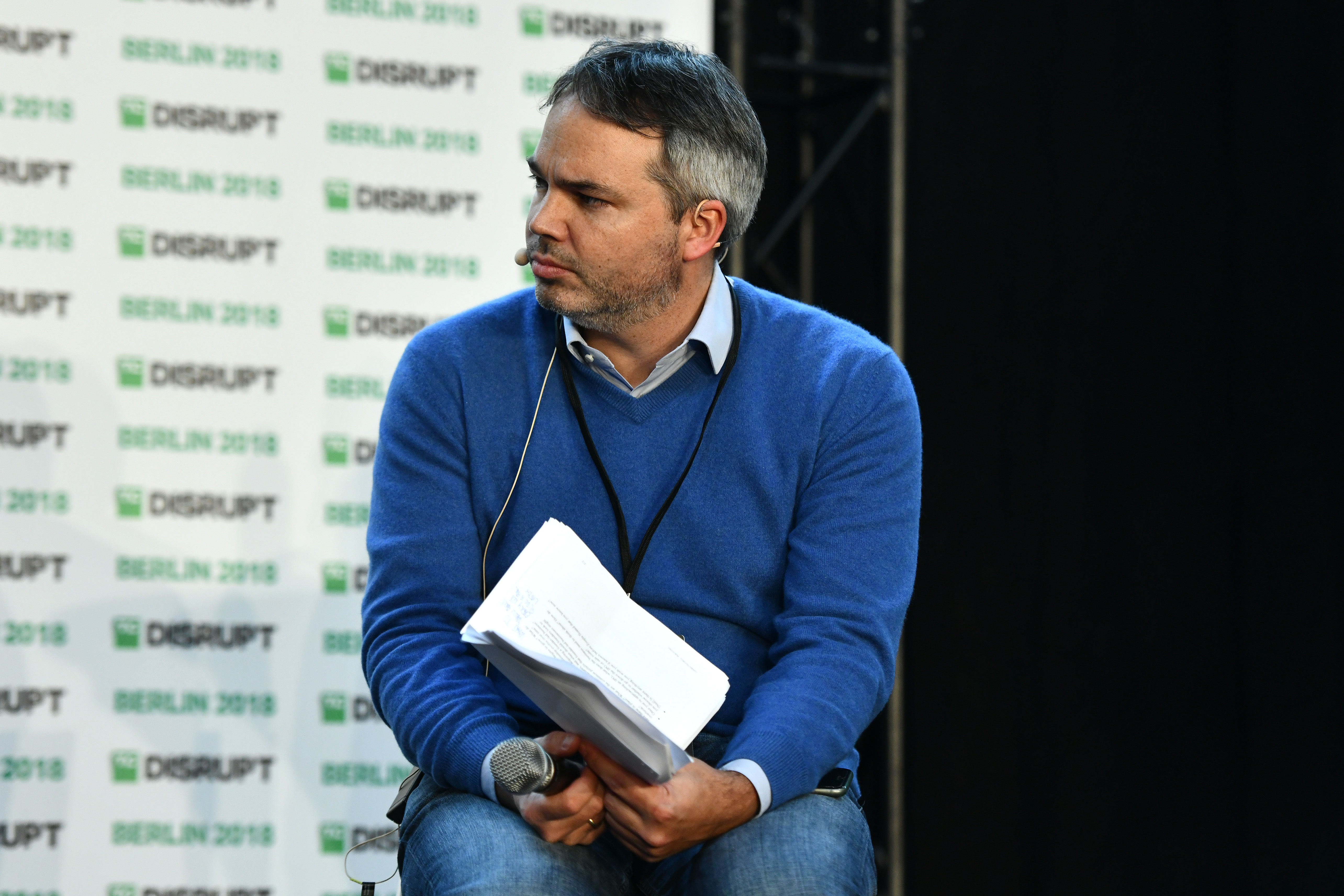 Founding partner at project, Florian Heinemann speaks on stage at TechCrunch Disrupt Berlin 2018 at Treptow Arena on November 29, 2018 in Berlin, Germany.